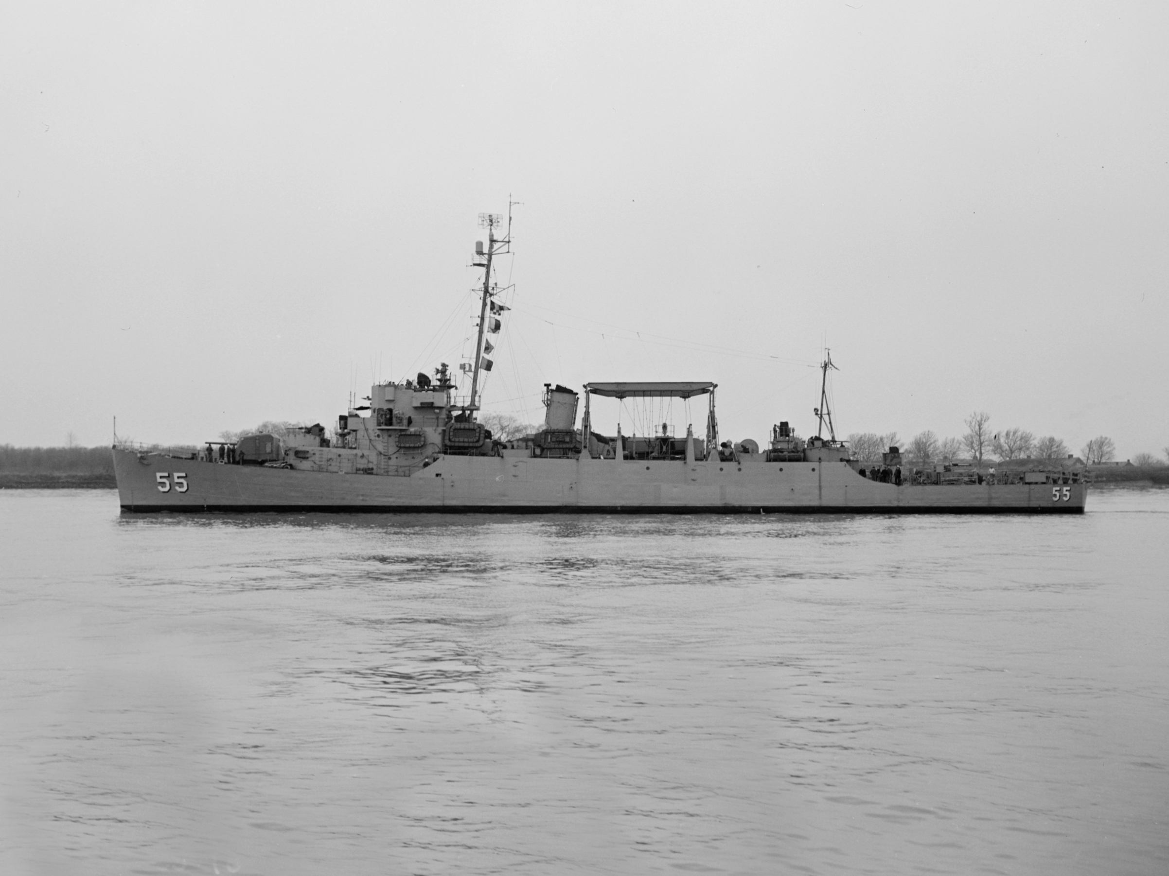 The U.S. Navy high-speed transport USS Laning (APD-55) underway off the Philadelphia Naval Shipyard, Pennsyvania (USA), on 12 December 1953.